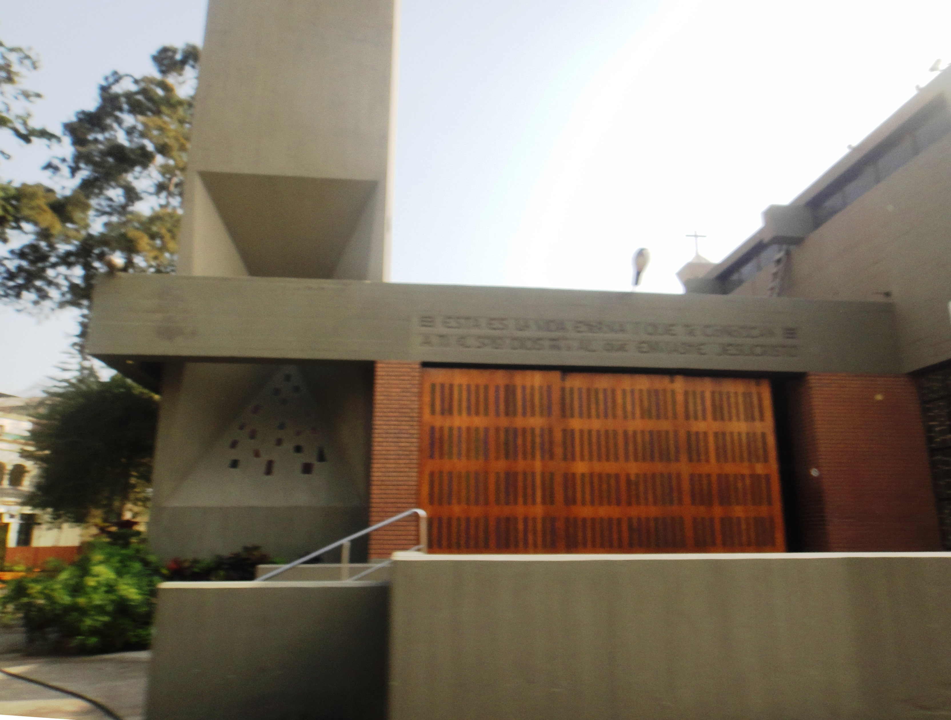 Saint Anthony of Padua church in Jesús Maria District, Lima-Peru.